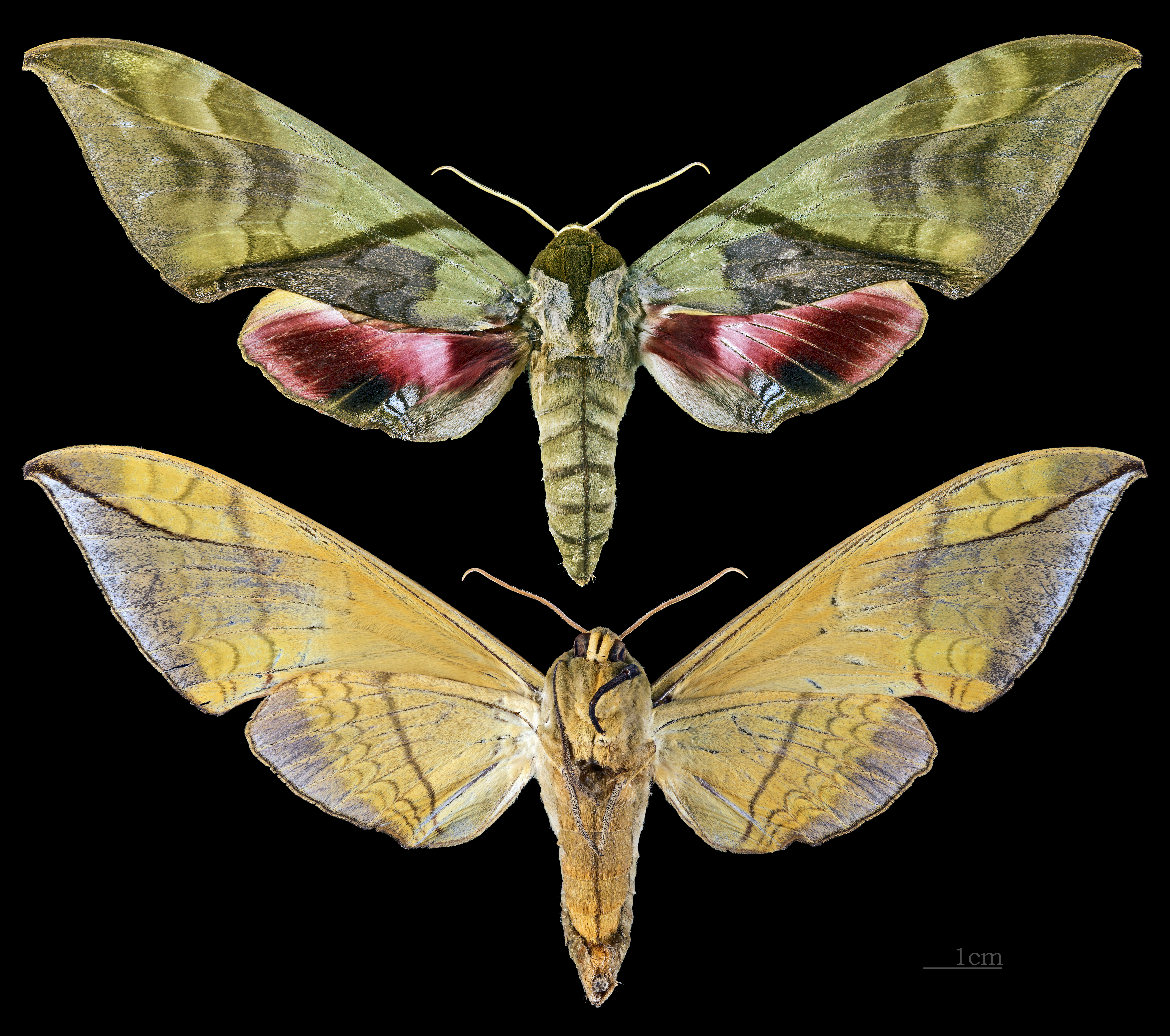 Callambulyx amanda - Two views of same specimen Collection of the Mathematician Laurent Schwartz